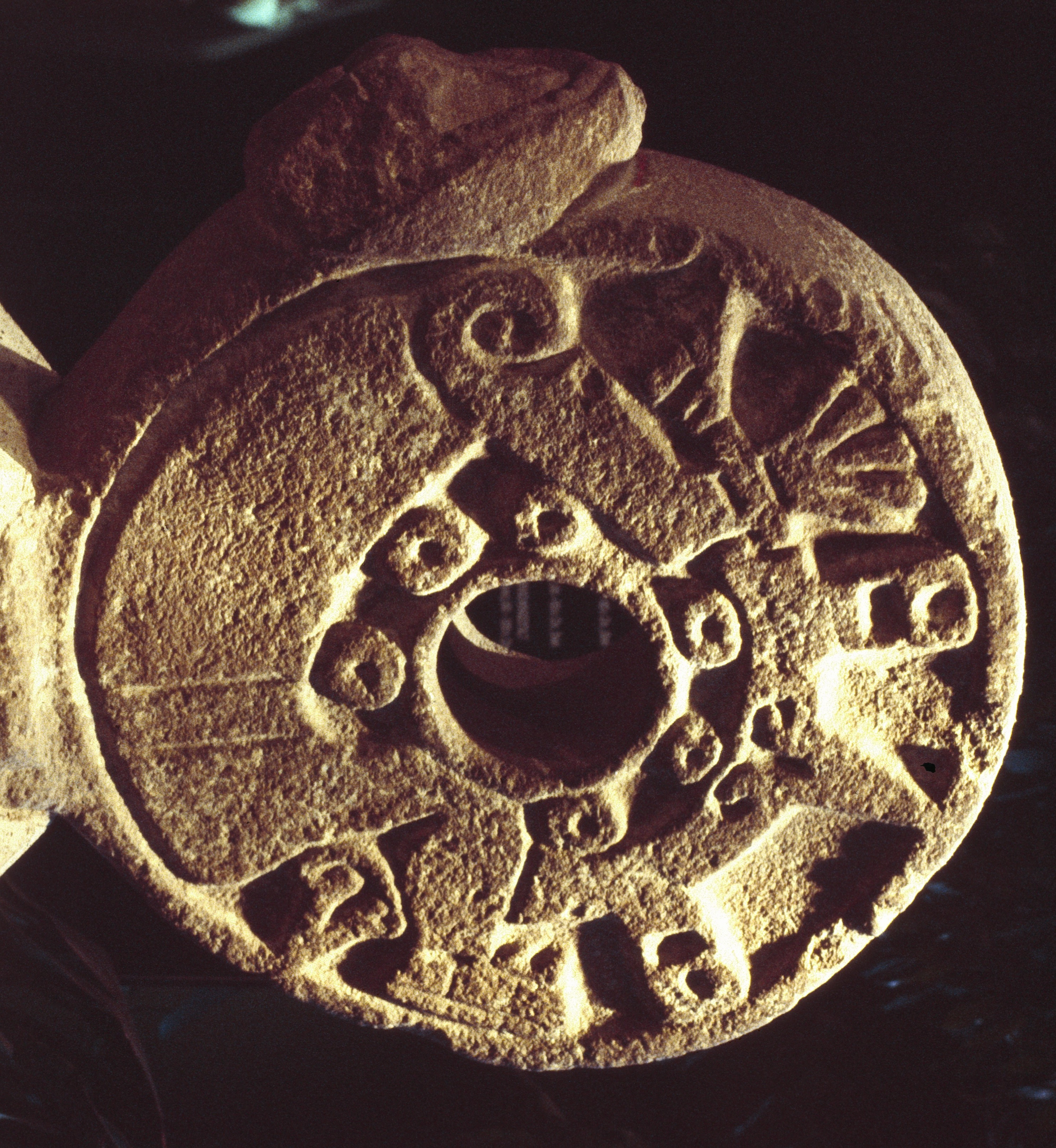 Ballcourt ring (Philadelphia Museum of Art)